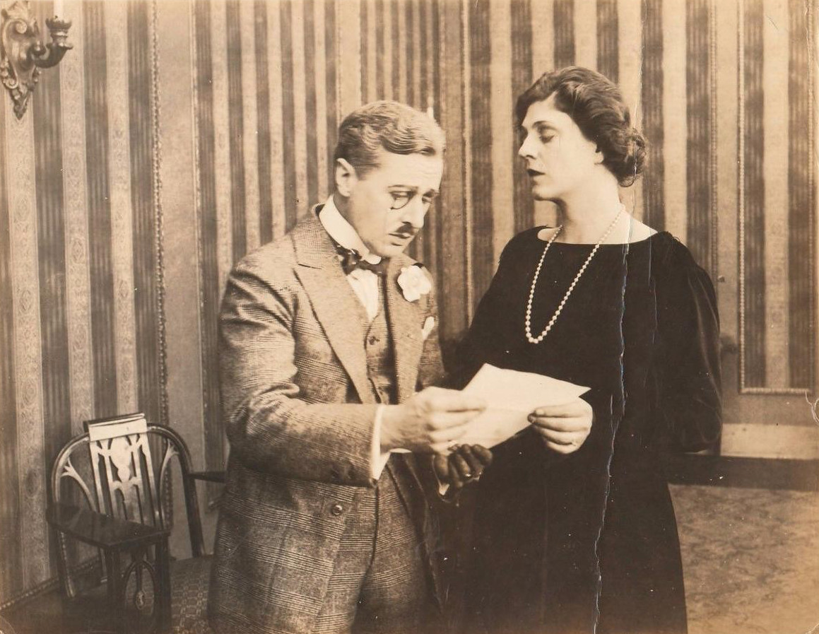 An American Widow (1917) with Ethel Barrymore and Irving Cummings; an original Metro Studios photograph.